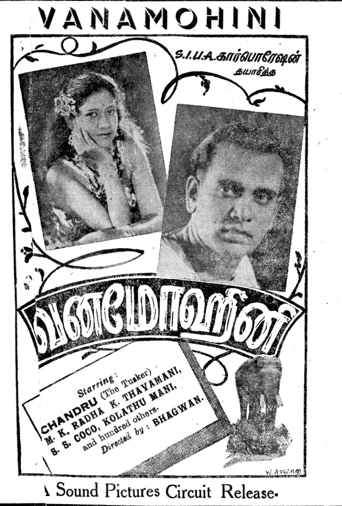 Poster for the 1941 Tamil film Vanamohini